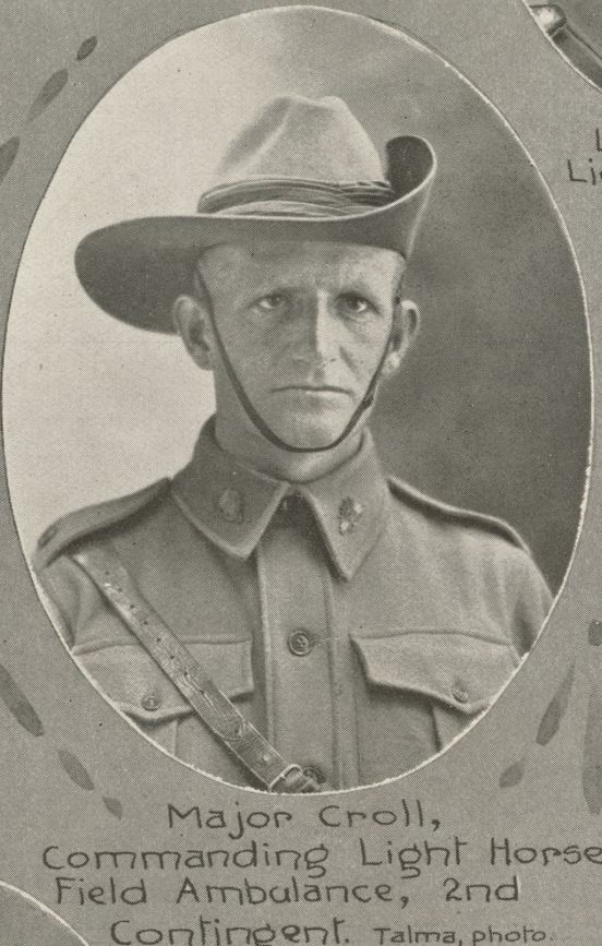 Image of David Gifford Croll. From John Oxley Library, State Library of Queensland. Image number: 702692-19150102-s0023-0005